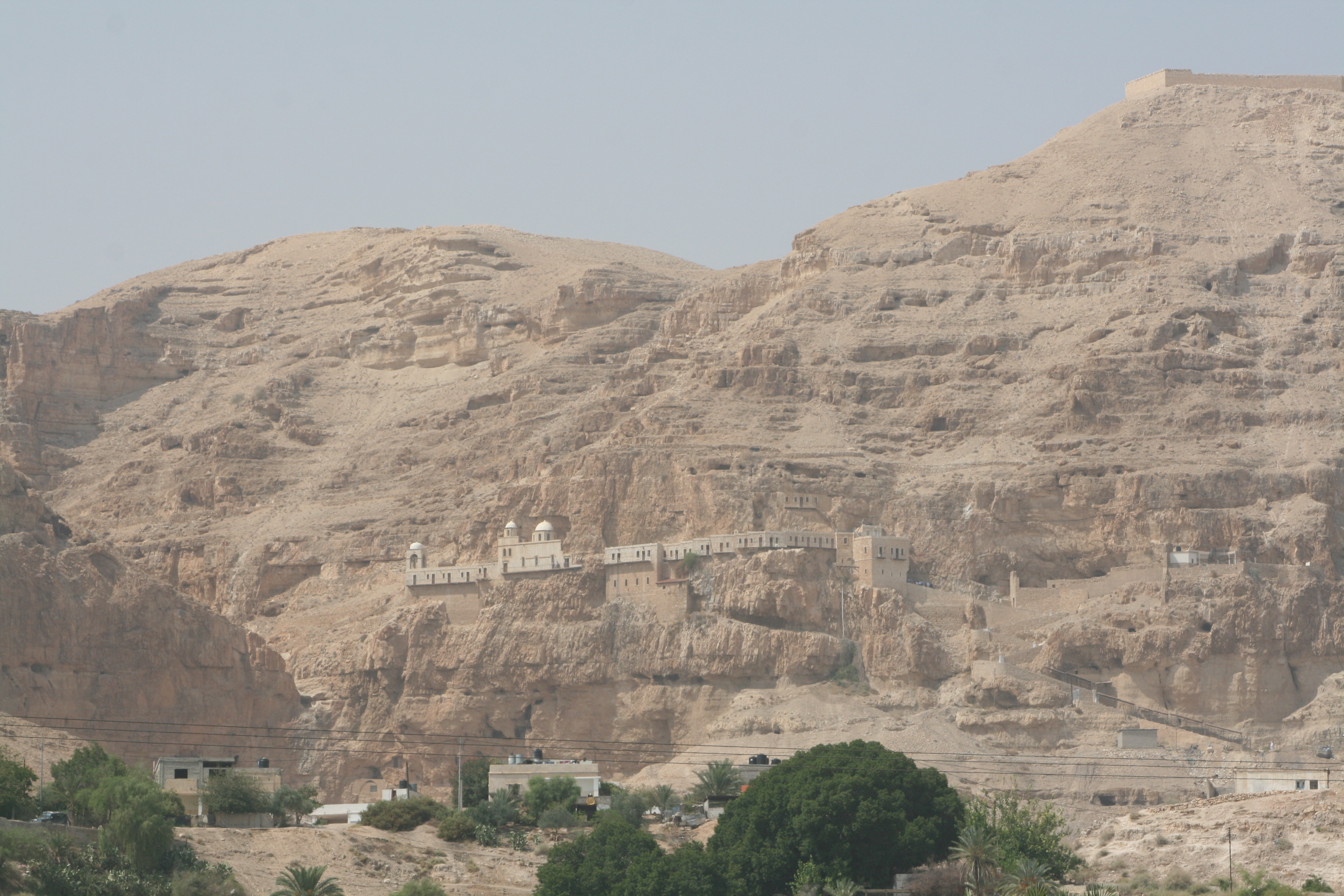 Mount of Temptation, Jericho, Palestine